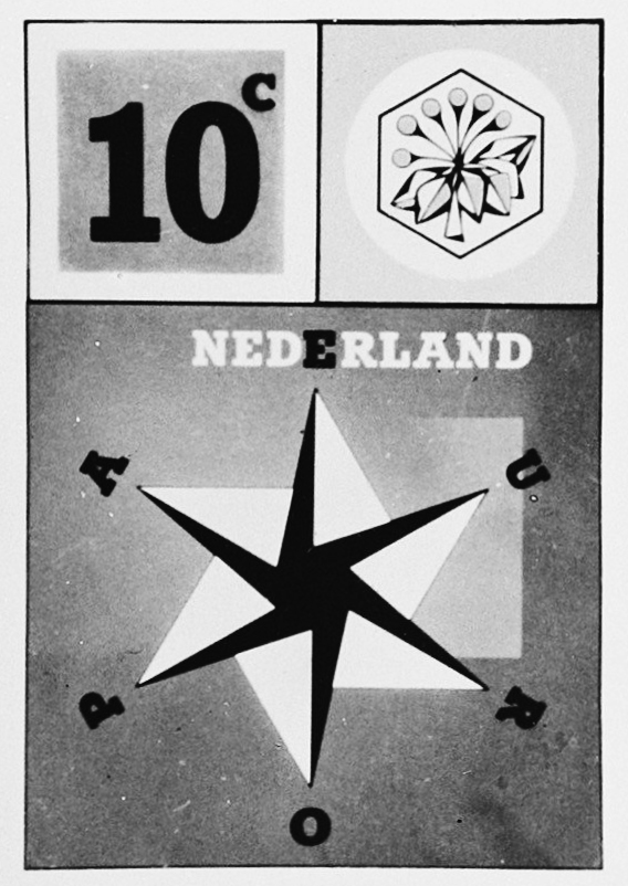 Postage stamp The Netherlands, 1957. Black prints